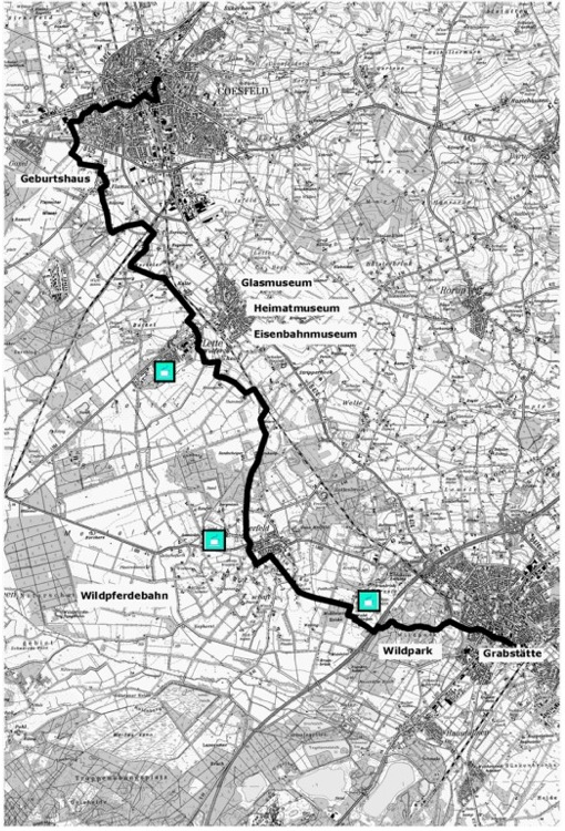 Map Anna Katharina Pilgrim Road Coesfeld Dülmen Germany